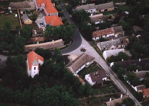 Church in Kékkút, Hungary, aerialphotography